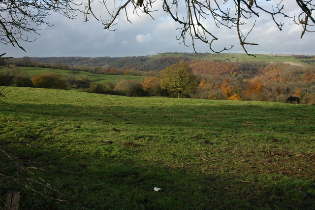 View over the Woodchester Park View from above Forest Green over the wooded valley of Woodchester Park.